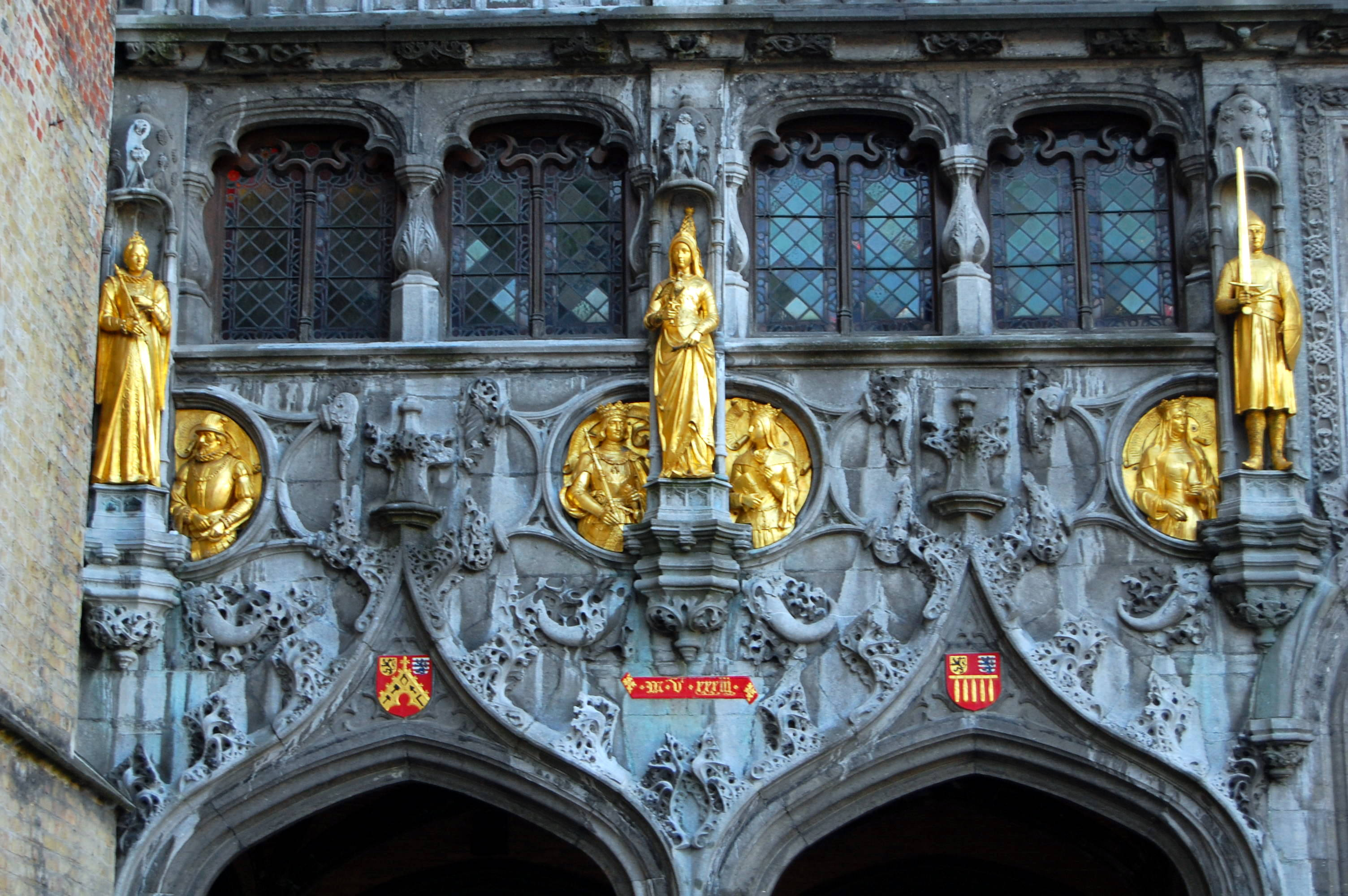 Basilica of the Holy Blood in Bruges, Belgium